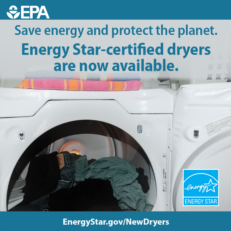 Need a new clothes dryer and want an energy efficient model? The new Energy Star certified ones are at least 20% more energy efficient than standard models. Learn more